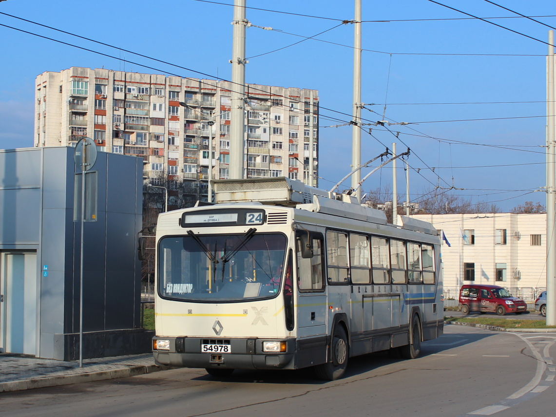 Renault trolleybus at the main roundabout in Ruse, Bulgaria.